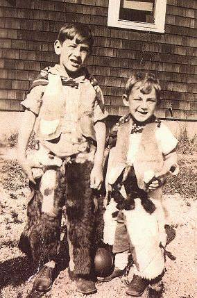 Robert (left) and Harvey (right) Milk in 1934